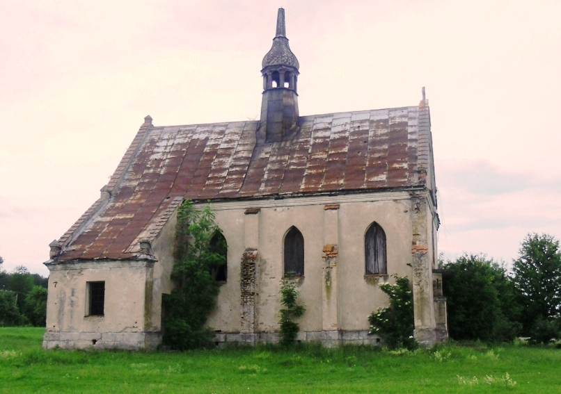 Launched Roman Catholic church was built before to the Second World War in the village Chystopady (Zboriv Raion).